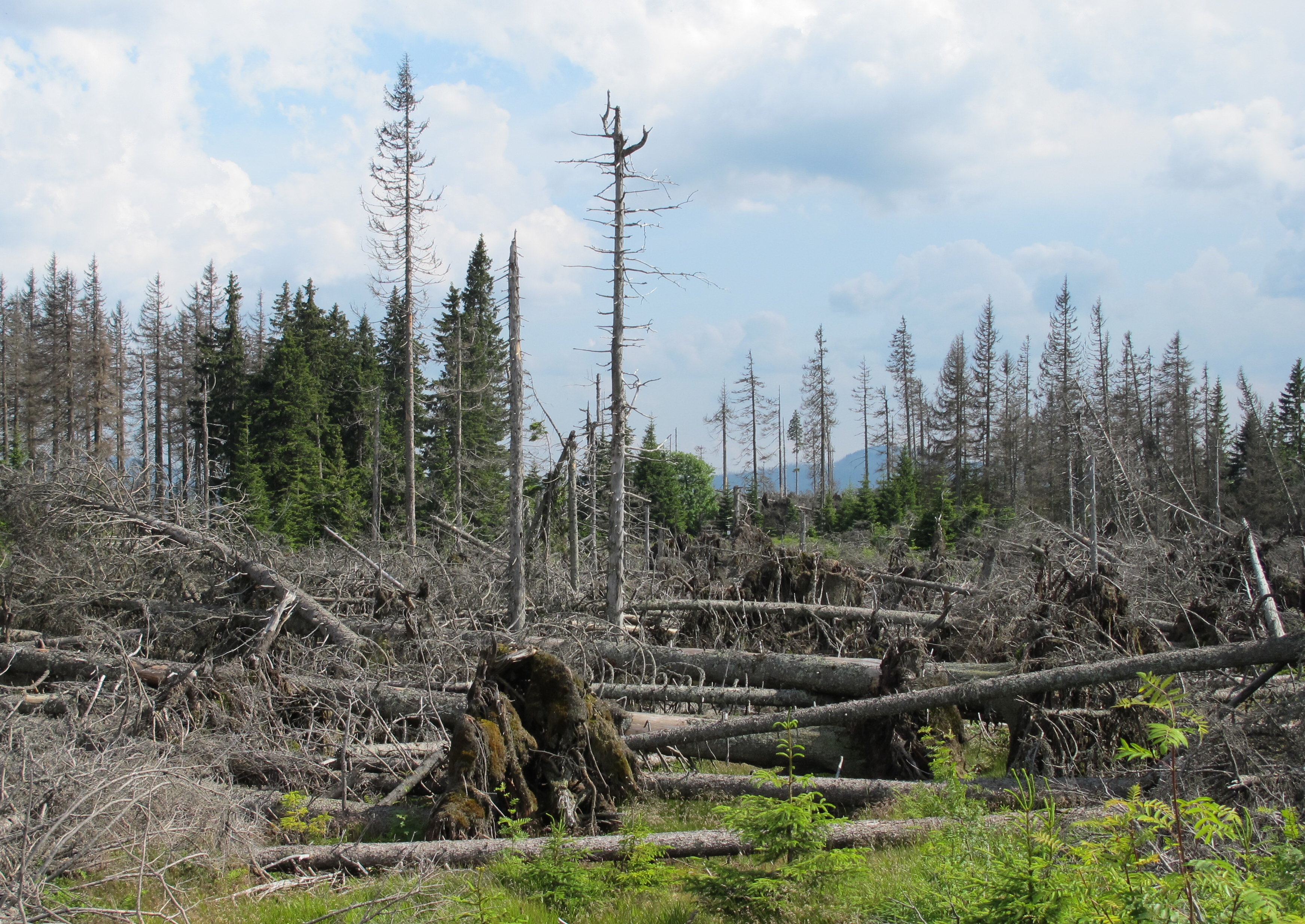 Forest after storm Kyrill in 2007, near peak Poledník in national park Šumava, near Prášily in Klatovy District